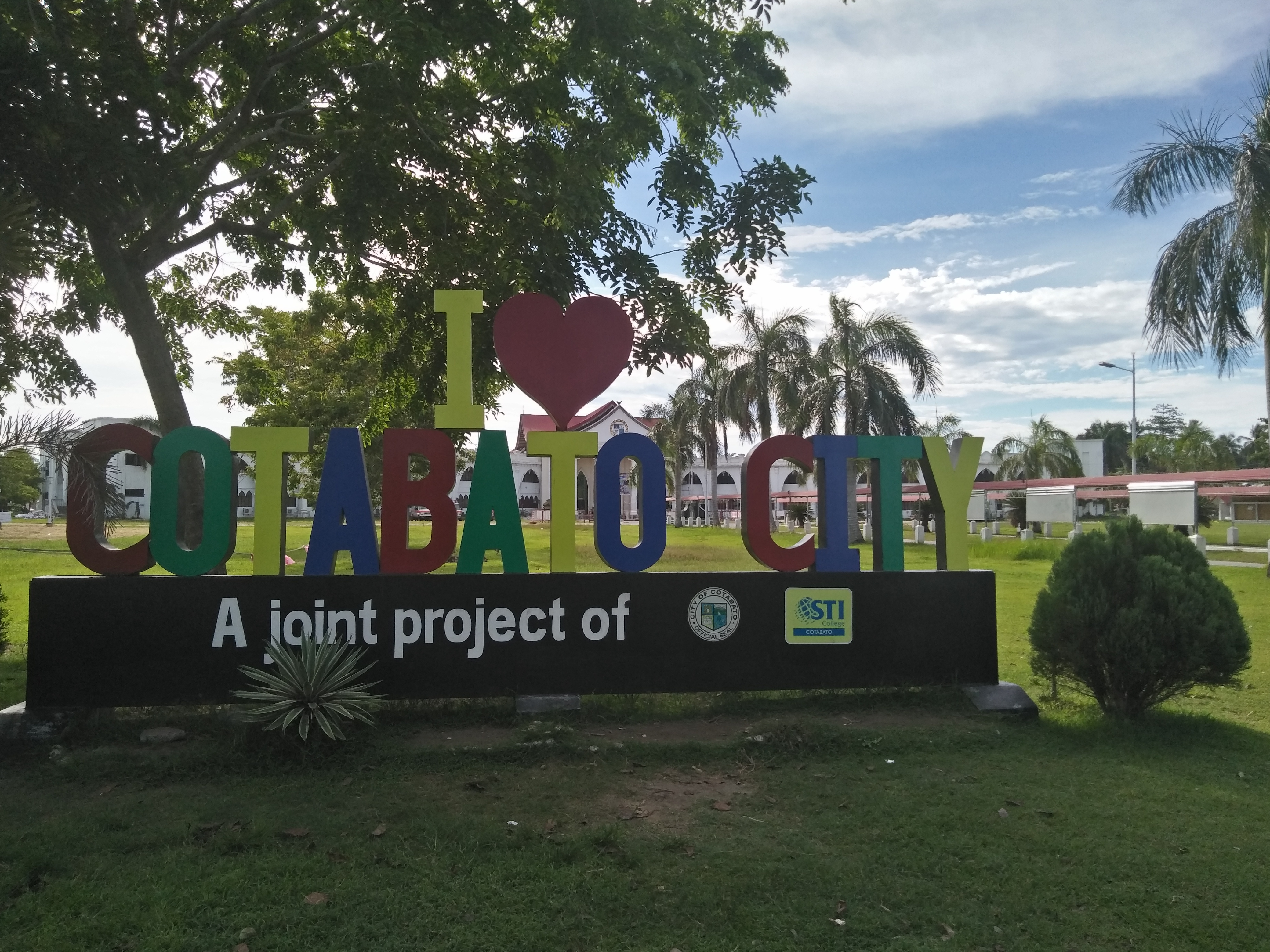 Marker in Cotabato City